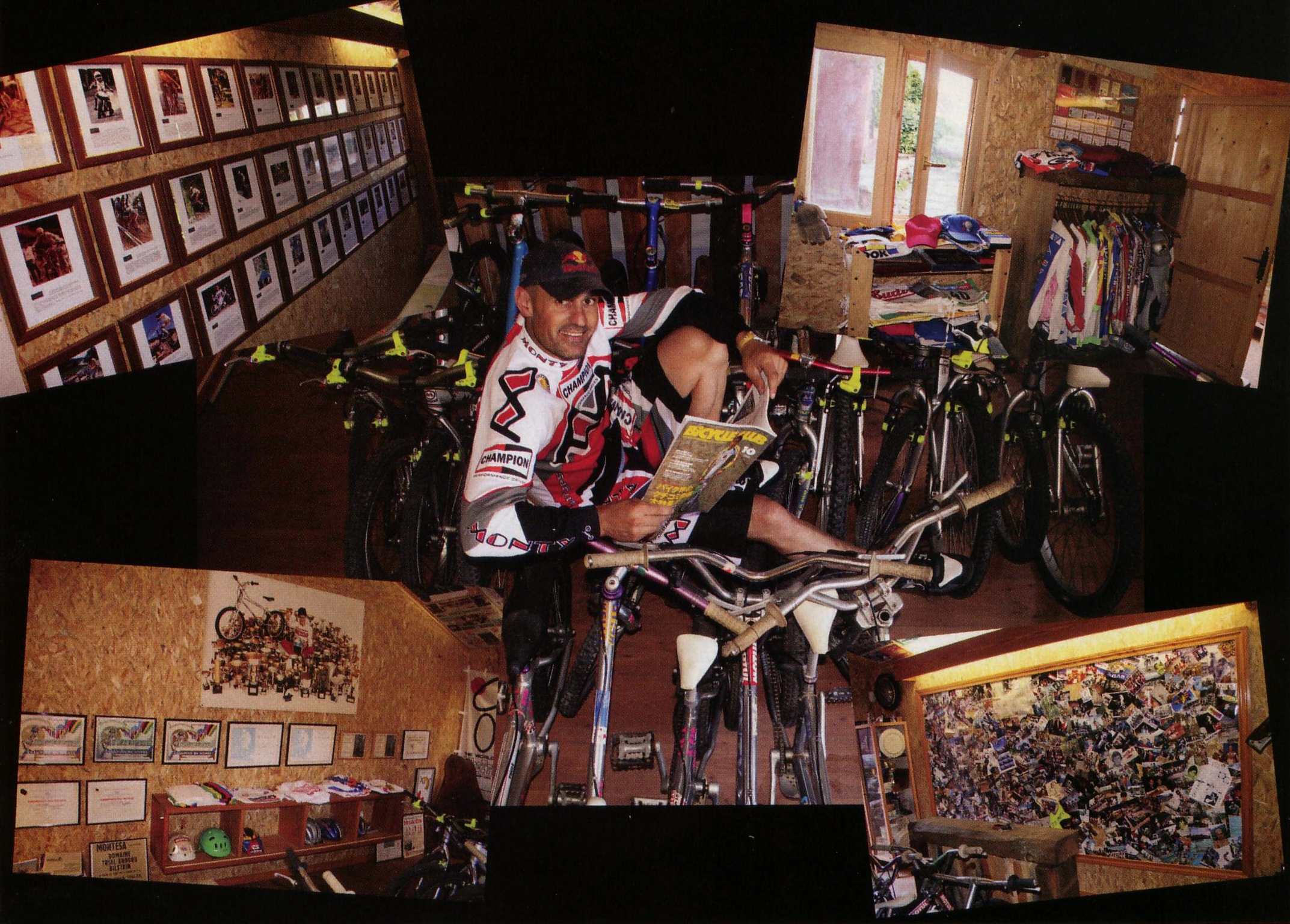 Ot Pi Museum